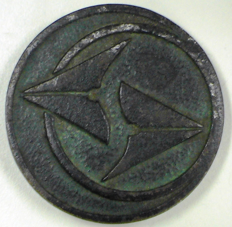 Central Intelligence Service Unit,JGSDF